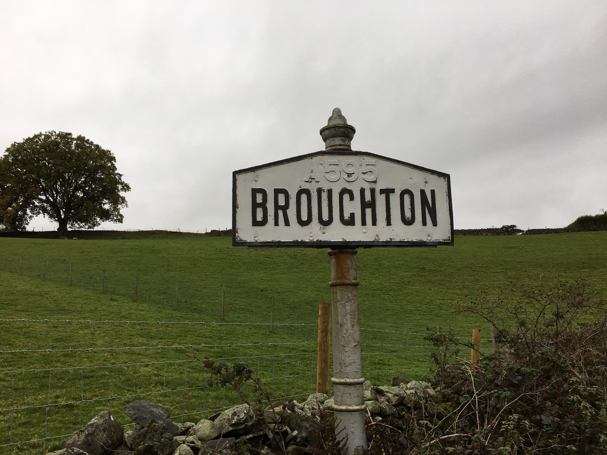 Sign on C5009 heading into Broughton-in-Furness